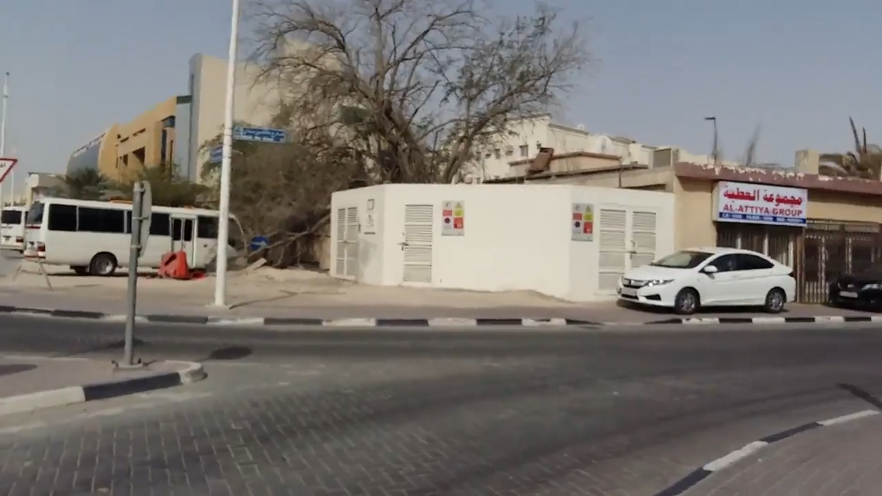 Intersection of Salim Bin Oqba Street and Al Shams Street in the Fereej Bin Omran district of Doha, Qatar